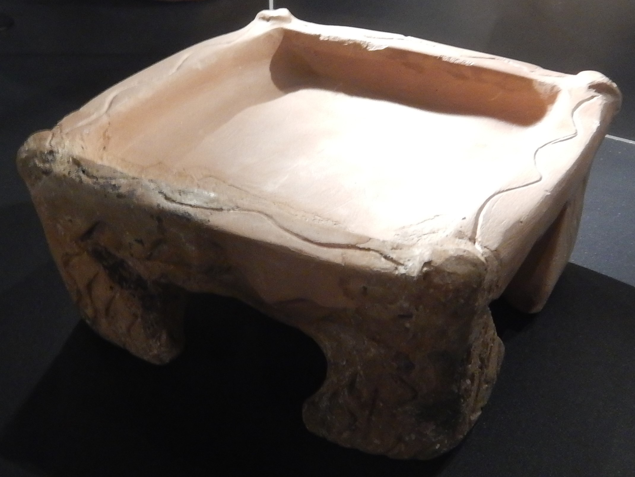 Altar, table type, found in Tumba, Madzari, Skopje, dated 1st half 6 millennium BC